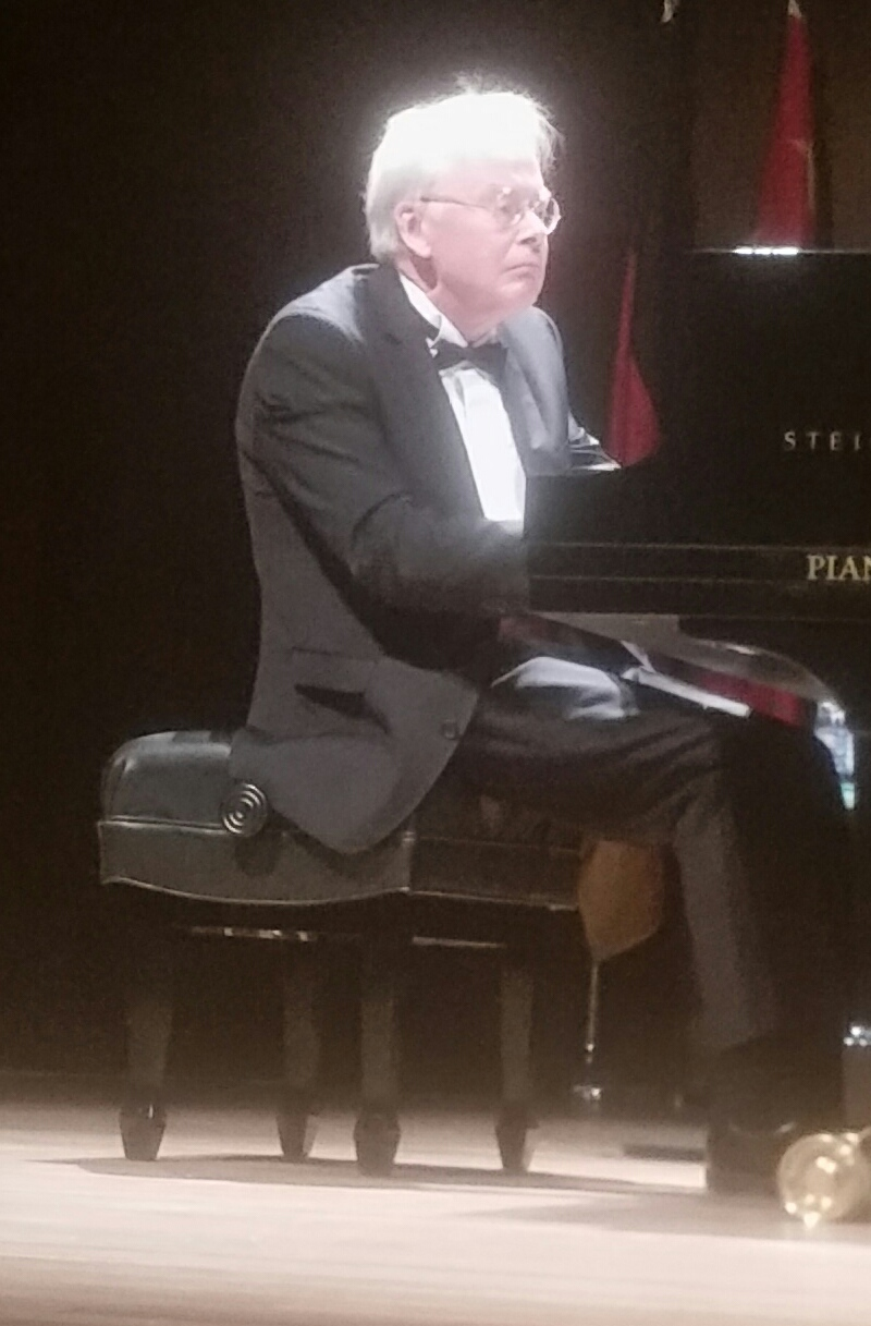 David Owen Norris photographed in Montreal, Quebec, Canada at the MBAM's Bourgie Hall.